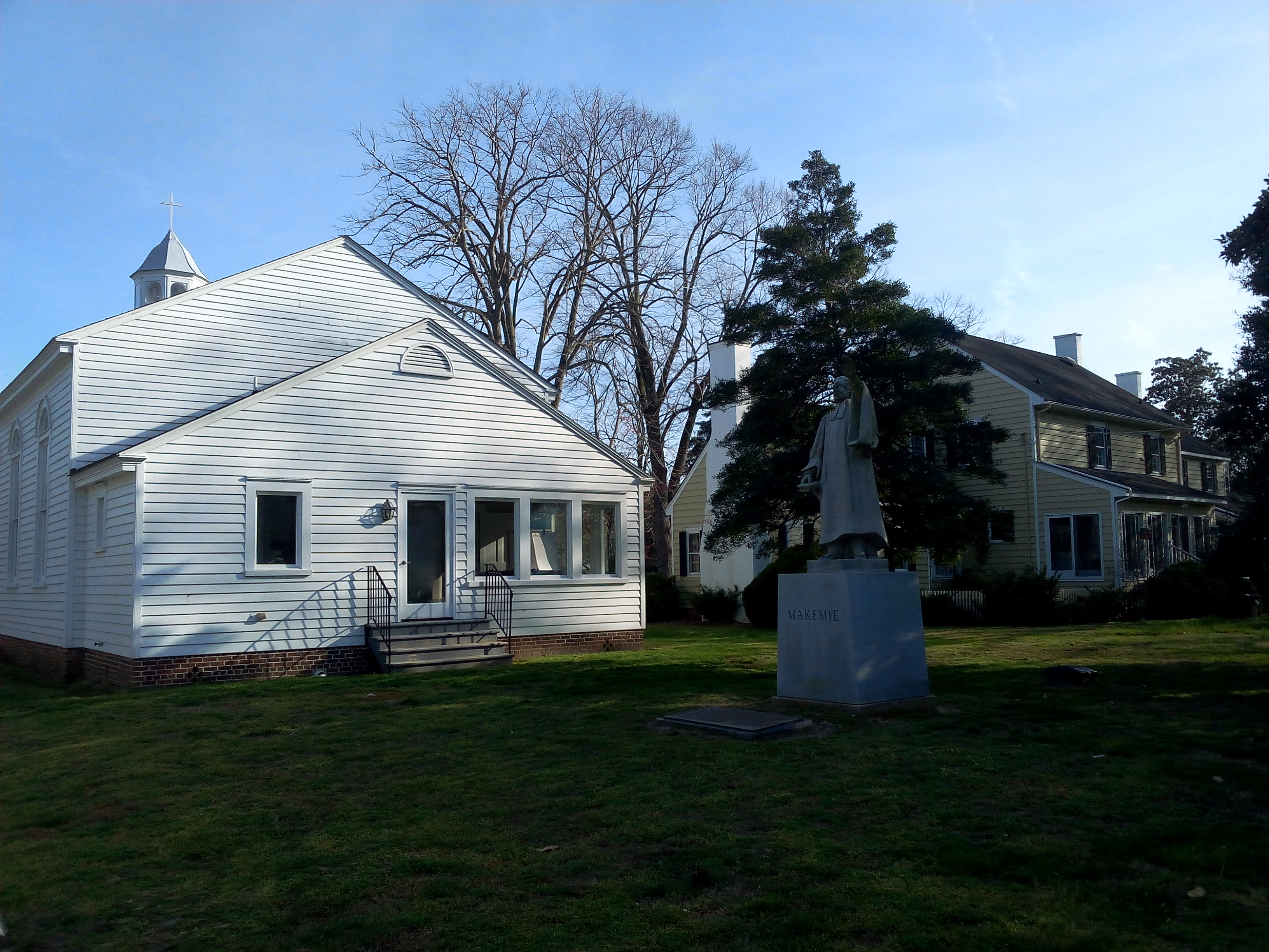 behind Makemie Presbyterian Church, Accomac, Virginia